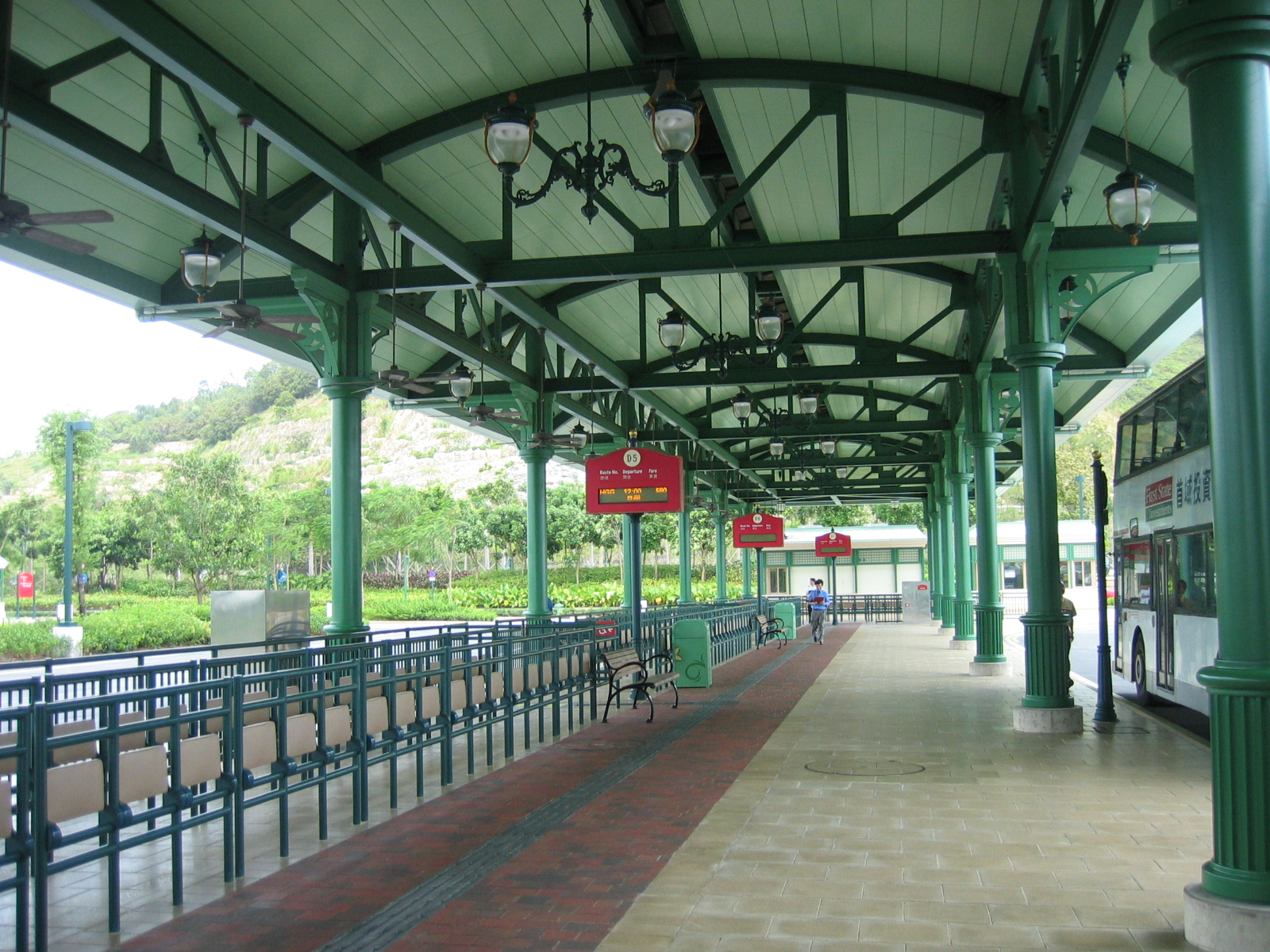 Hong Kong Disneyland Bus Temrimous